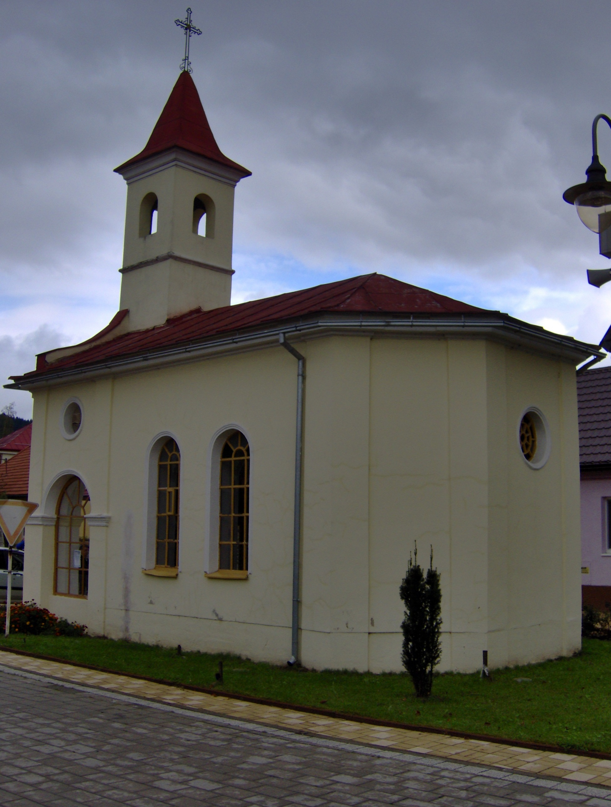 Horný Hričov, chapel , 1899